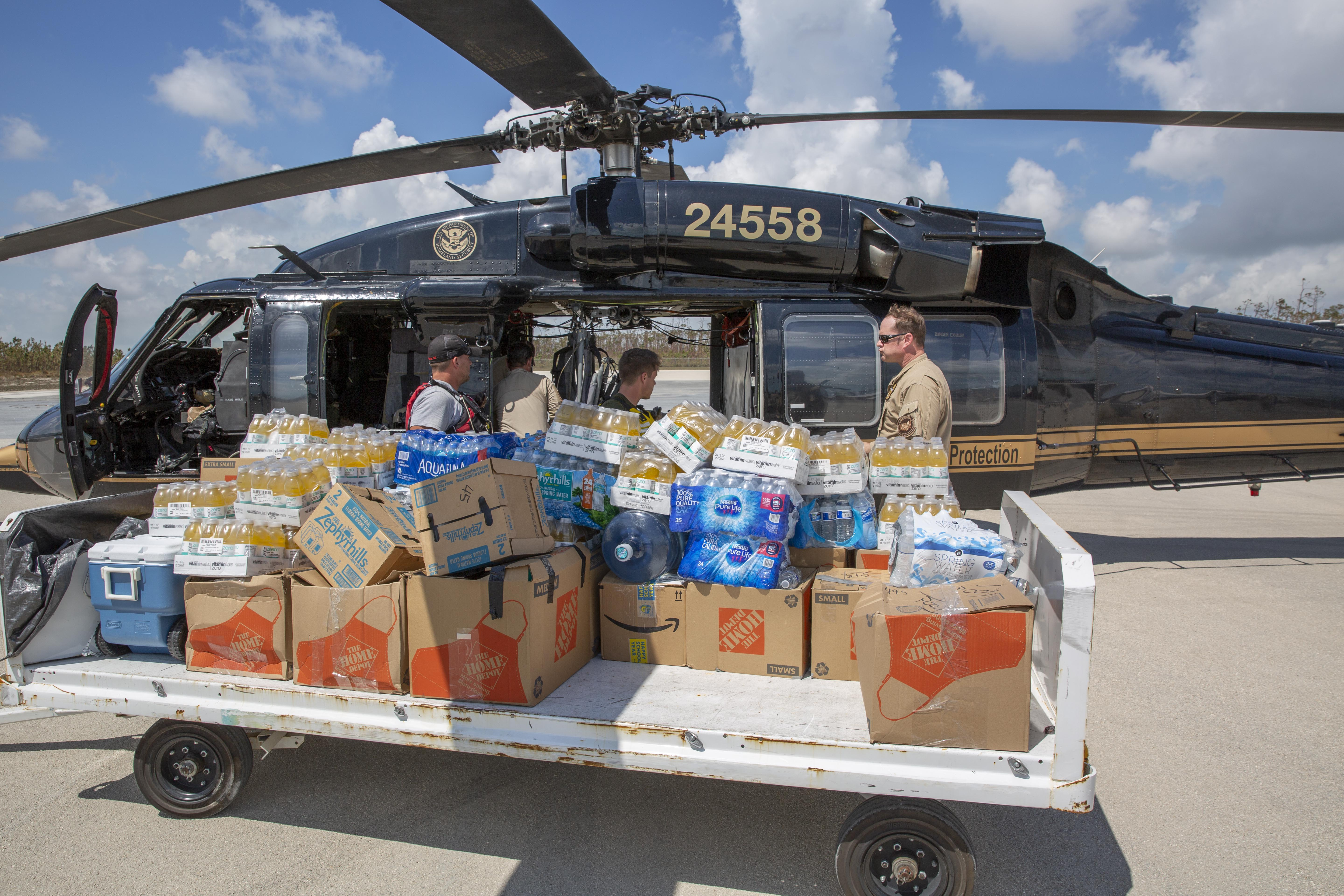 CBP AMO agents deliver food and water to severely damaged Fox Town on the Abaco Islands in the Bahamas, in the aftermath of Hurricane Dorian Sept. 6 2019. CBP photo by Kris Groagn